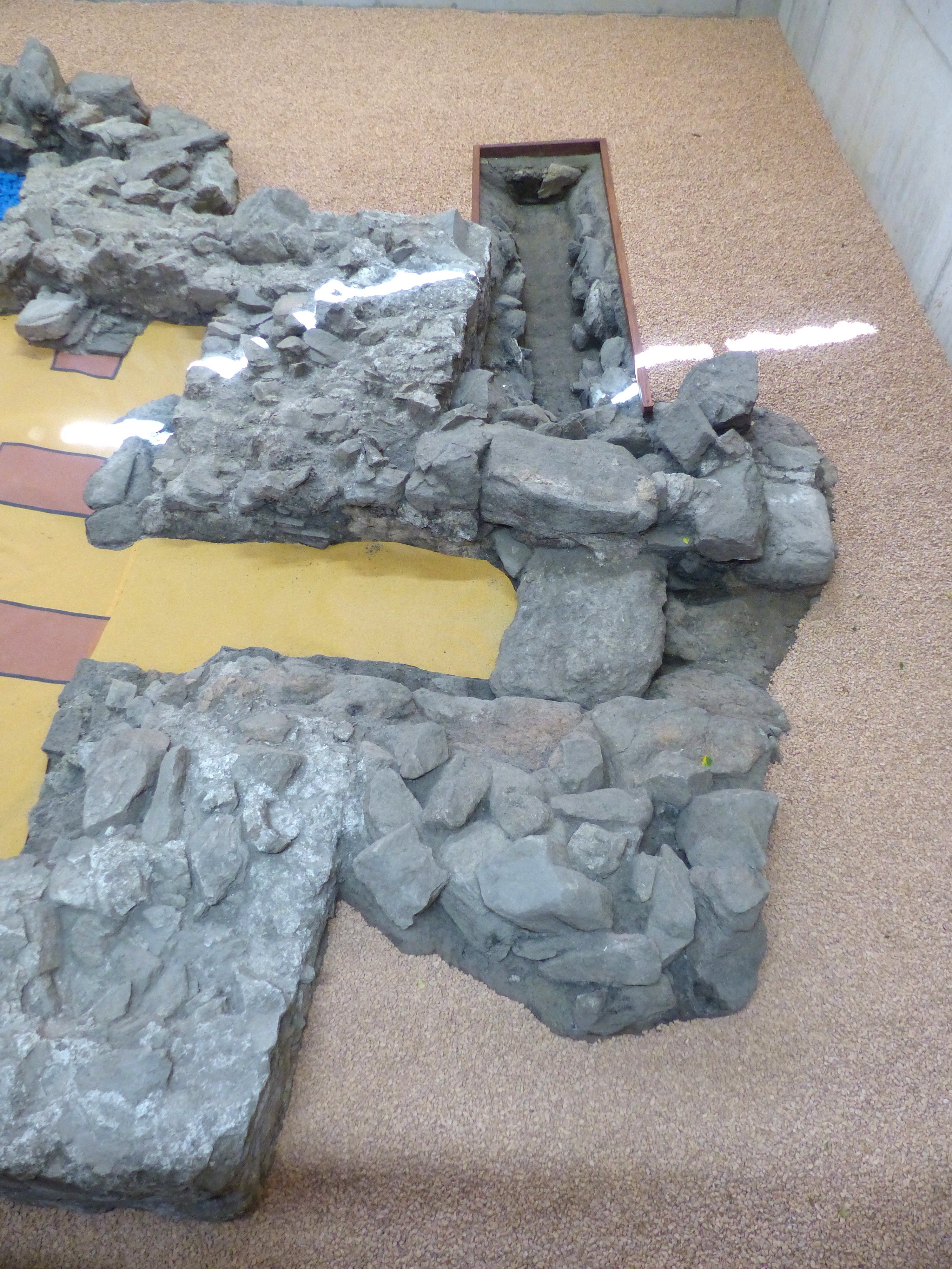 Schlögen ( Upper Austria ). Ancient Roman thermae ( 2nd century AD ) - Praefurnium.